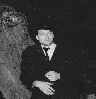 Theatrical release poster